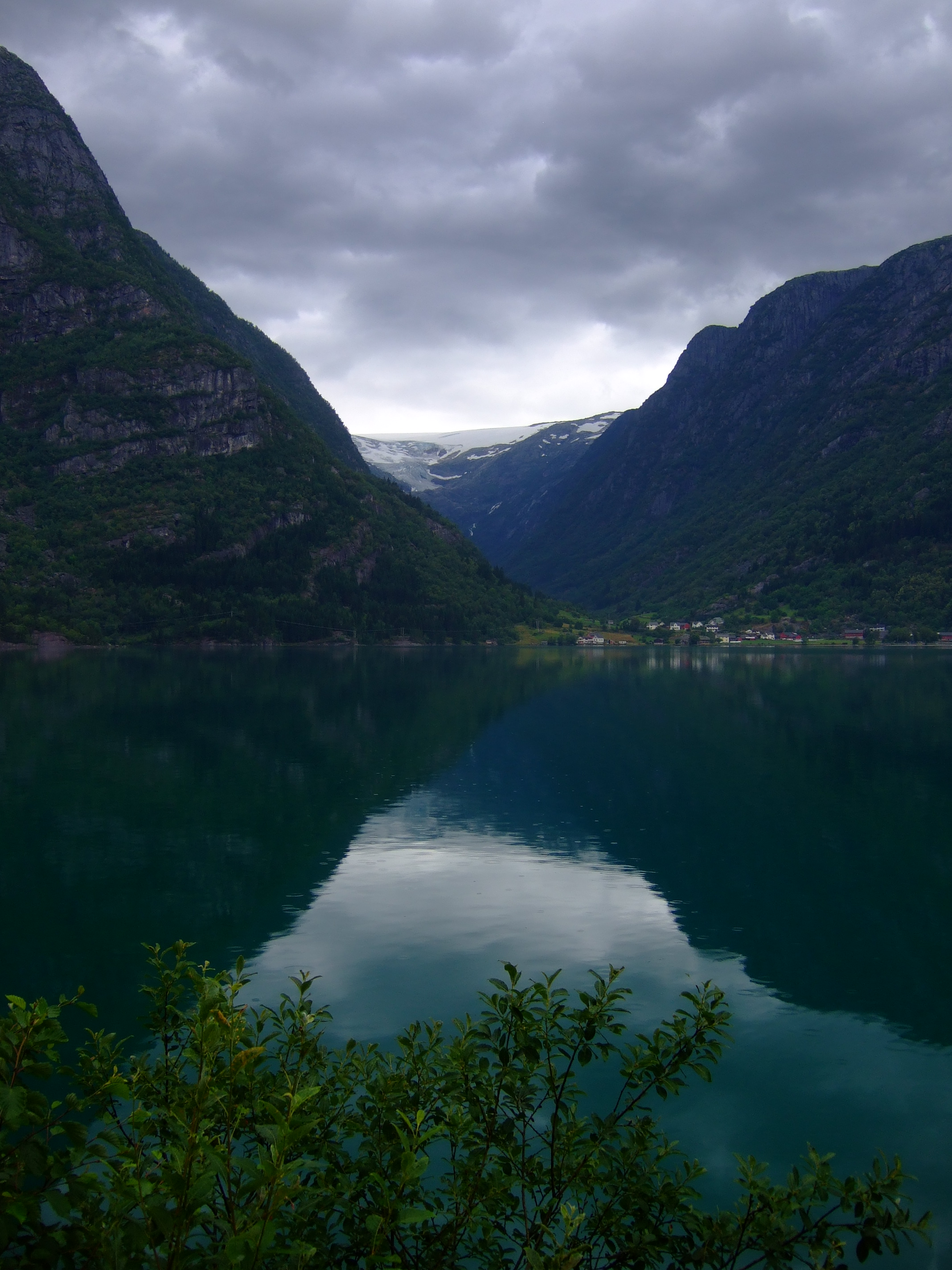 View from eastern bank of Sørfjorden to the Folgefonna in Hordaland.